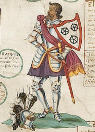 Sir John Scott (or Scot) (c. 1423 – 17 October 1485) of Scot's Hall in the parish of Smeeth, Kent, a committed supporter of the House of York. Among other offices, he served as Comptroller of the Household to Edward IV, and lieutenant to the Lord Warden of the Cinque Ports. Detail from from a family pedigree illuminated on vellum, commissioned by his descendant Sir John Scott (1570-1616) of Nettlestead Place, MP. Sold at Bonhams Auctioneers, London, 26 Jun 2007, Lot 46 "HERALDRY - SCOTT FAMILY OF KENT", for £3,840.